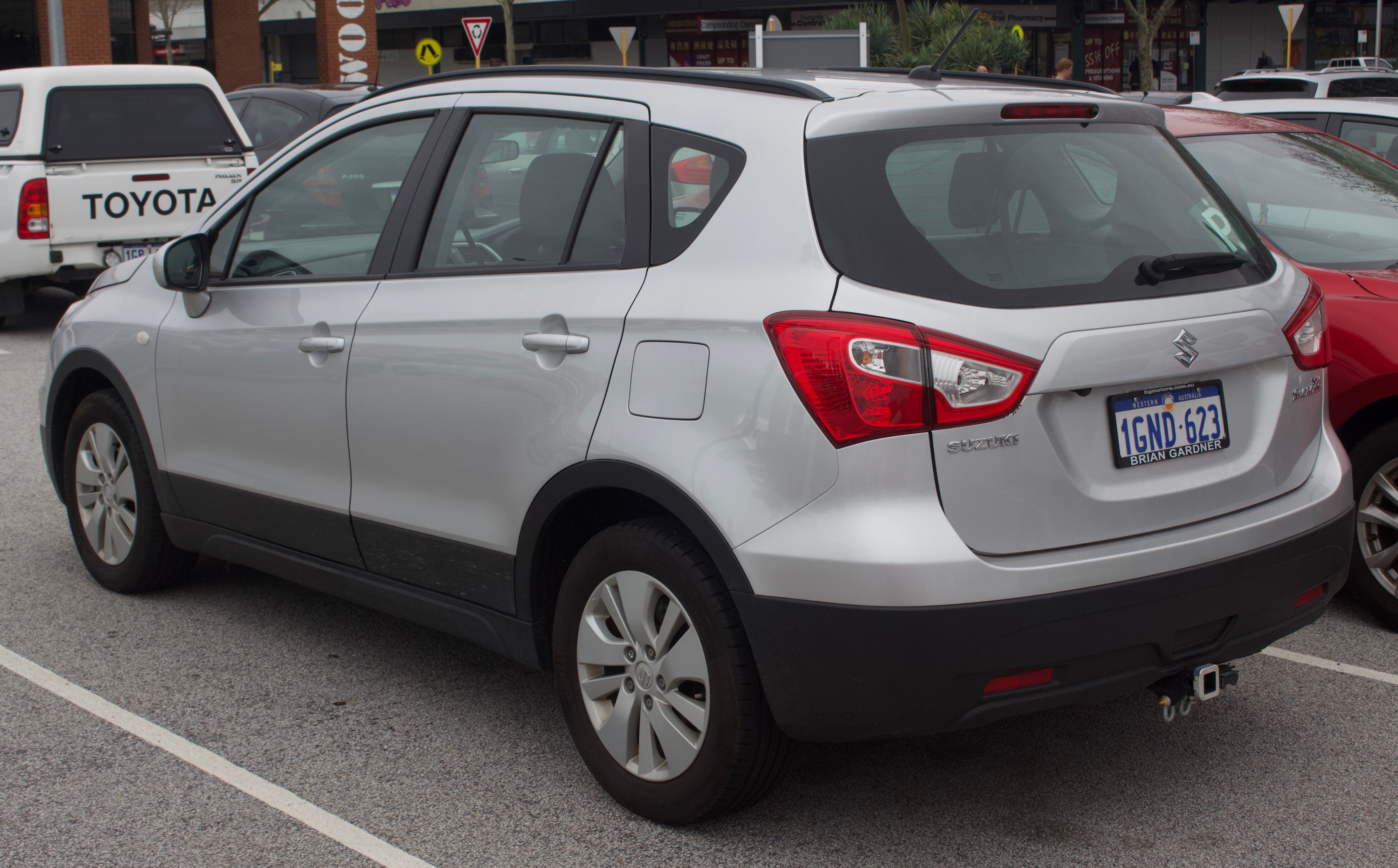 2013-2016 Suzuki SX4 (JY) GL wagon. Photographed in Fremantle, Western Australia, Australia.